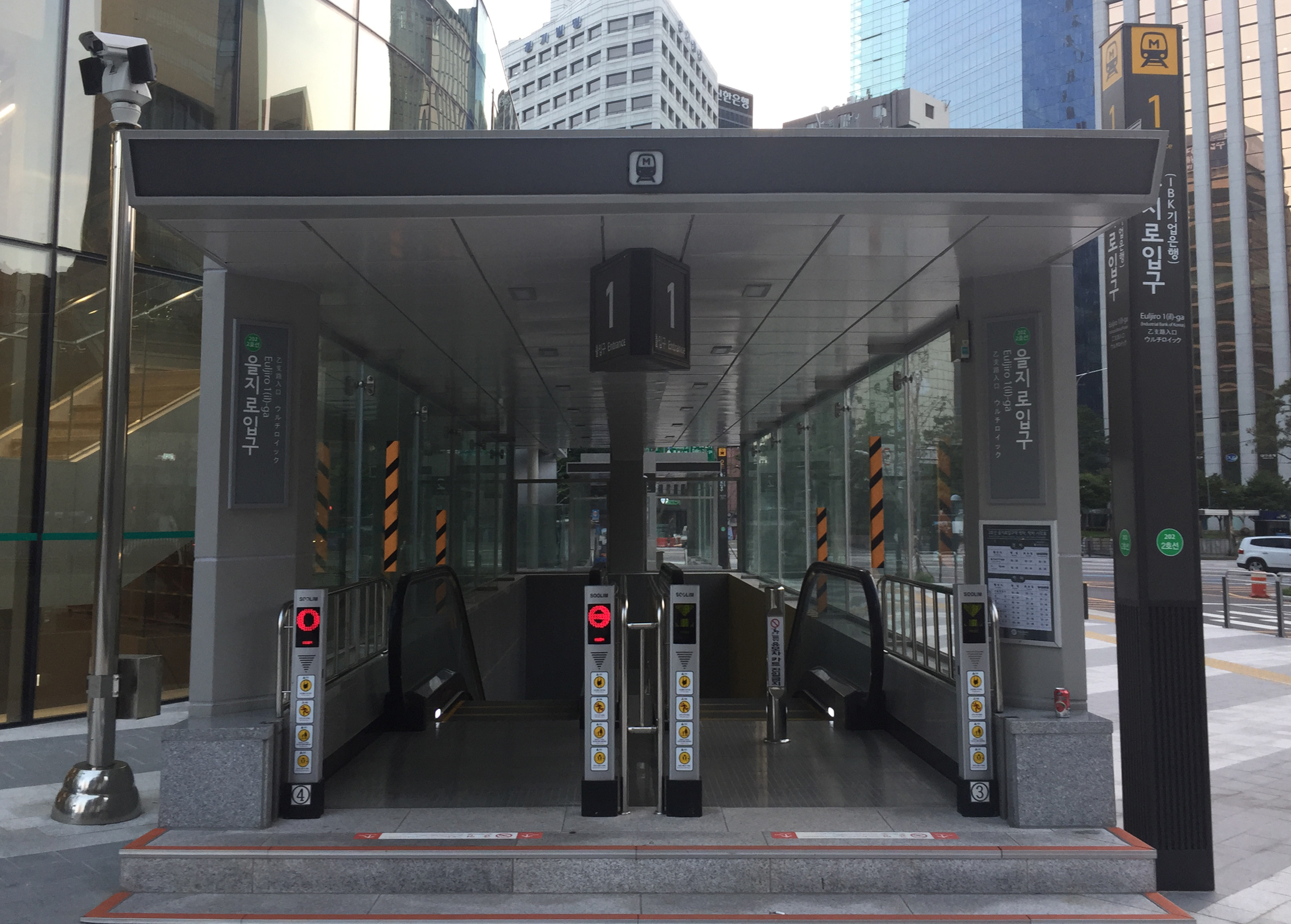 Euljiro 1-ga Station - Entrance 1